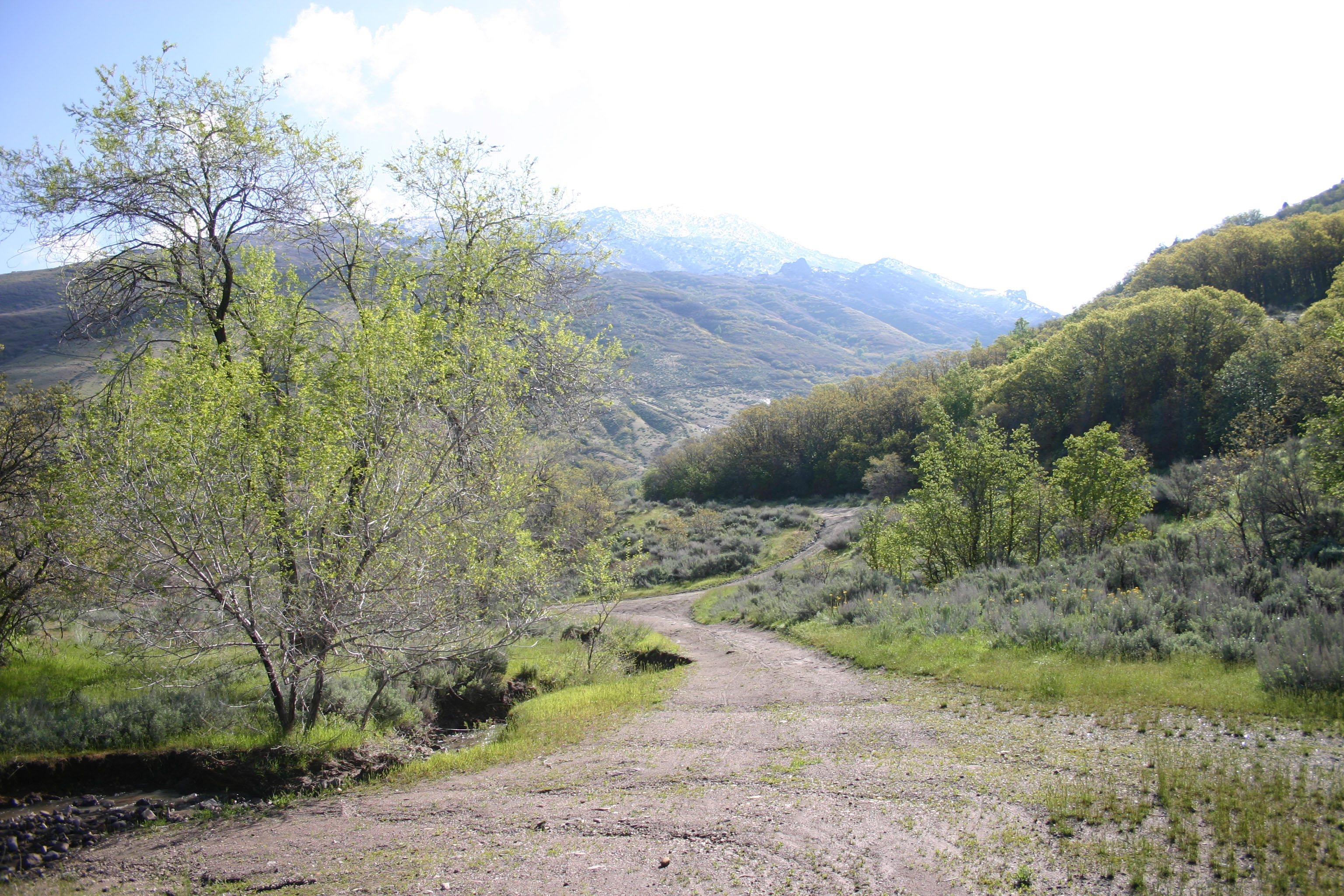 Corner Canyon, Draper, Utah photo 2